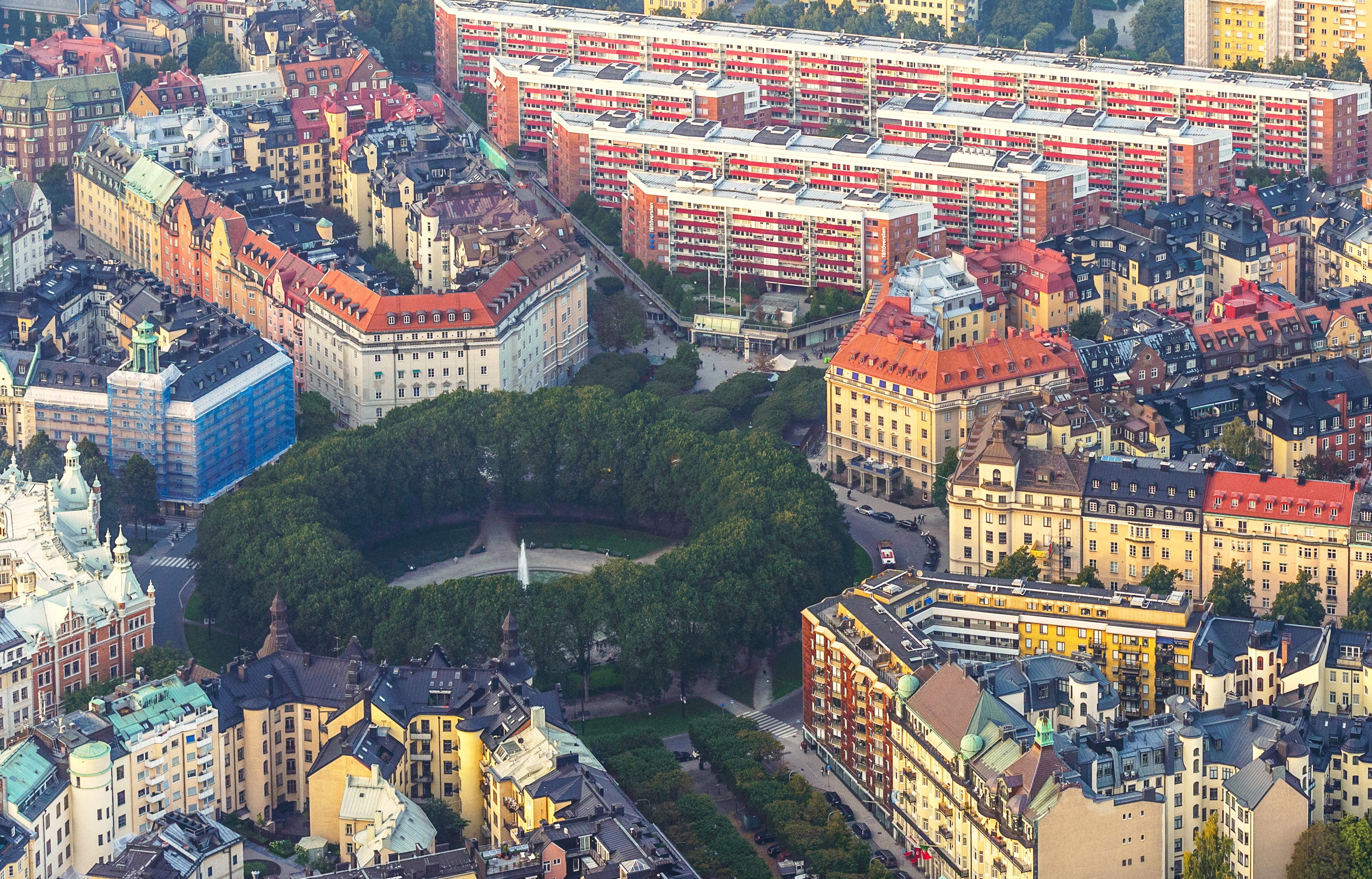 Karlaplan